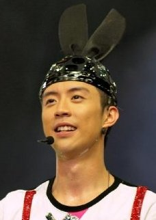 taken in lollipop concert in hong kong